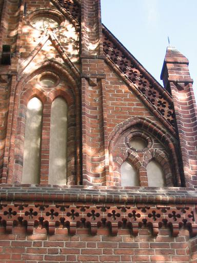 Detail of the Gothic West-facade of St. Marien church — of the Kloster Lehnin (Lehnin abbey). A German Brick Gothic era monastary in Landkreis Potsdam-Mittelmark, Brandenburg.